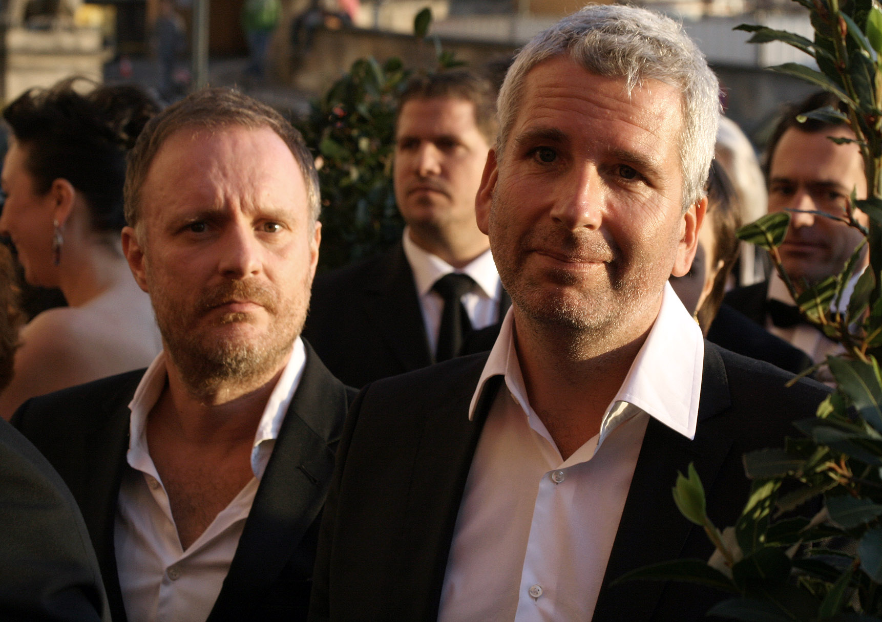 Dirk Stermann and Christoph Grissemann at the Romy TV awards (Hofburg Imperial Palace in Vienna)